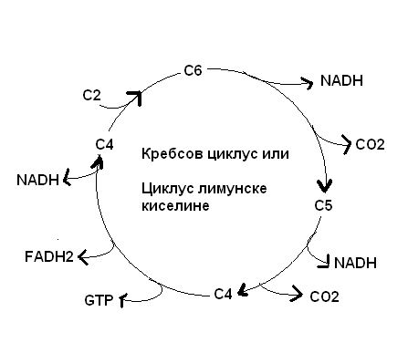 Own drawing of the Krebs' Cycle. Drawn in Windows Paint program, and saved in Photo Shop program as jpeg.